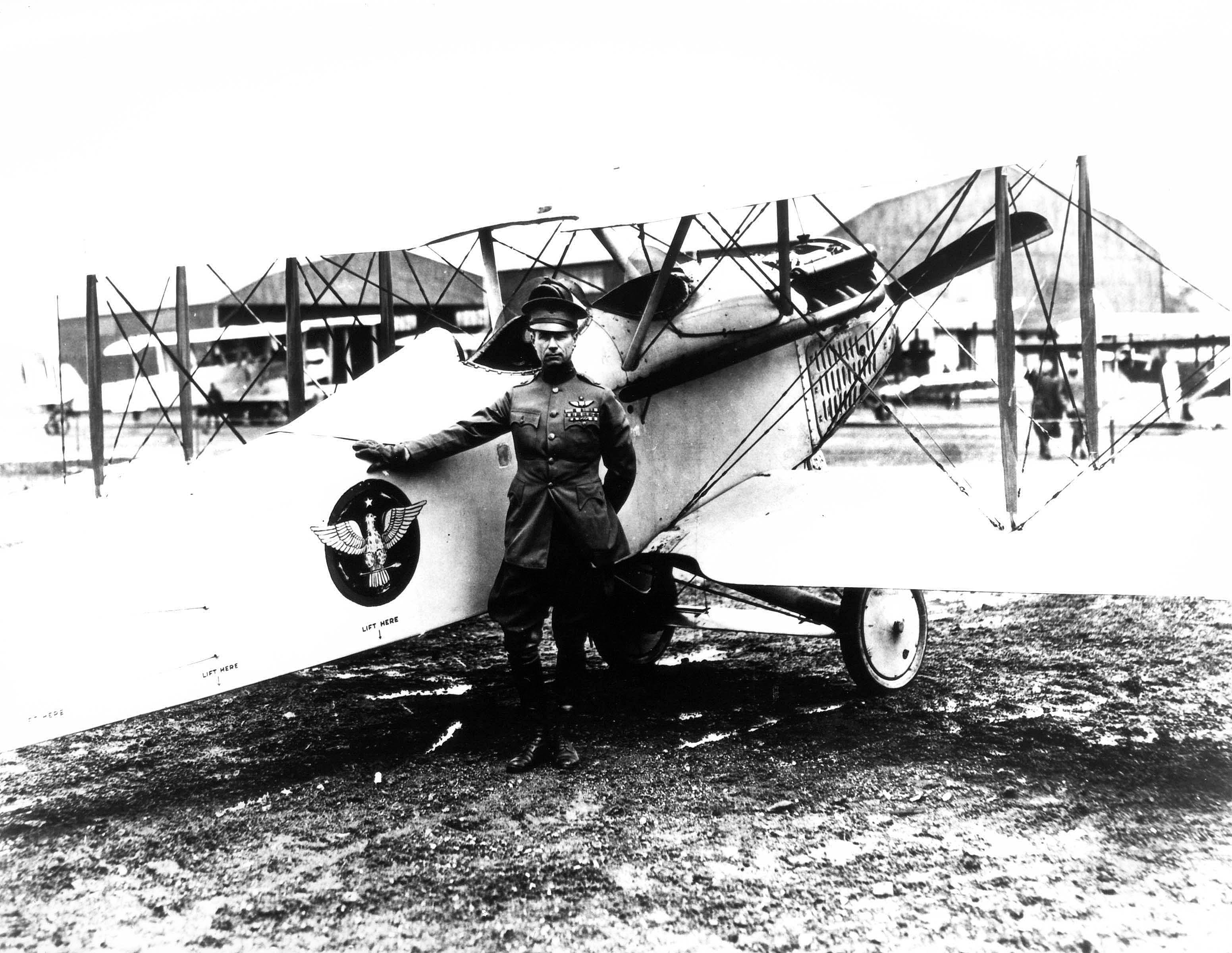 Billy Mitchell and Vought VE-7 Bluebird General Mitchell standing by V.E. 7 at Bolling Field Air Tournament, May 14 -16, 1920. May 14-16, The Vought VE-7 Bluebird was an advanced military trainer, observer, and fighter of World War I. (U.S. Air Force photo)